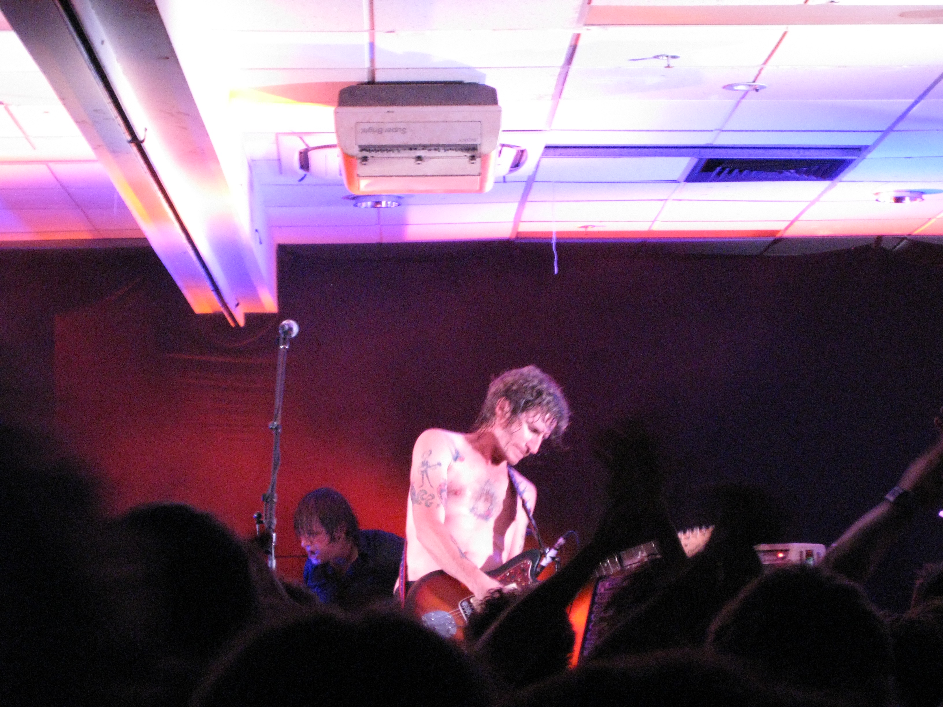 Tim Rogers (at front) and drummer Rusty Hopkinson during a You Am I concert at the ANU Bar in November 2008